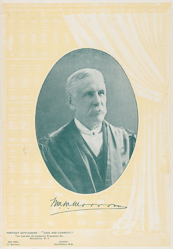 William W. Morrow (1843-1929)